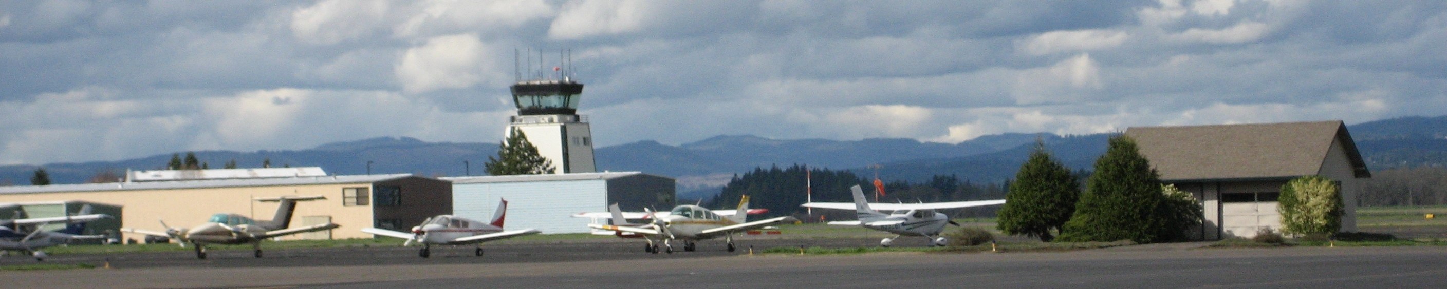 Portland-Hillsboro Airport in Hillsboro, Oregon.